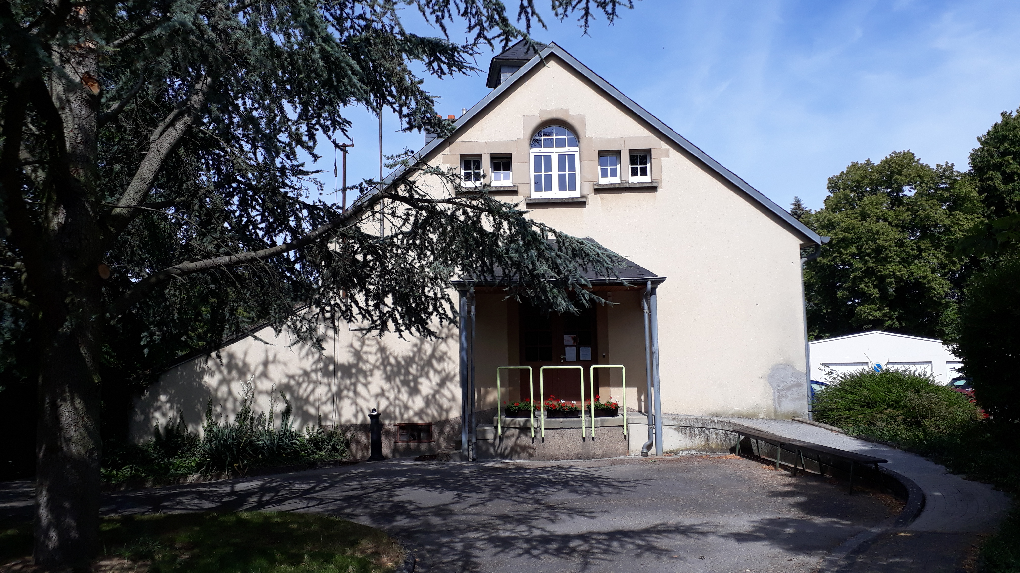 Residence Nico Kremer, also called 'Foyer du Tricentenaire', a home for disabled people. Castle Heisdorf in Luxembourg is built in Renaissance style (Rambouillet style, see: Rambouillet Castle). Heisdorf (Luxembourgish: Heeschdref)is a district of the Luxembourg municipality of Steinsel (Luxembourgish: Steesel). This existing architecture was taken over more or less by the other extensions or it was more or less successful trying to take into account. Owners of the castle since 1917 are the sisters of the Christian doctrine who run a retirement home here.